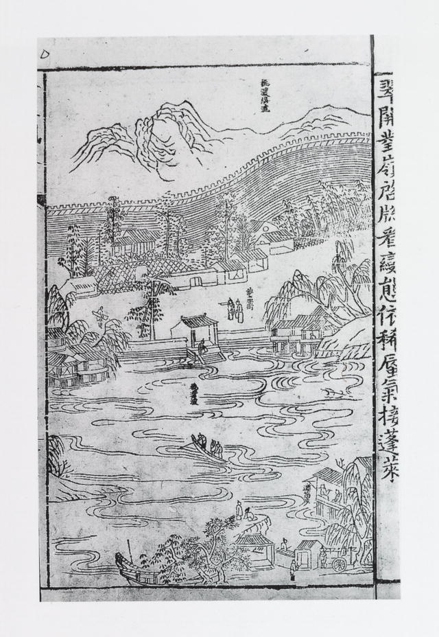 Chinese woodblock print illustration from the Jinling Tuyong (Gazetteer of Nanjing), 1624. Consisting of forty woodblock scenes of the city of Nanjing (under its earlier name of "Jinling"), this Ming Dynasty printing includes descriptions and eight-line poems about the city and surrounding region. The book was written by Zhu Zhifan, with drawings by Lu Shoubo.